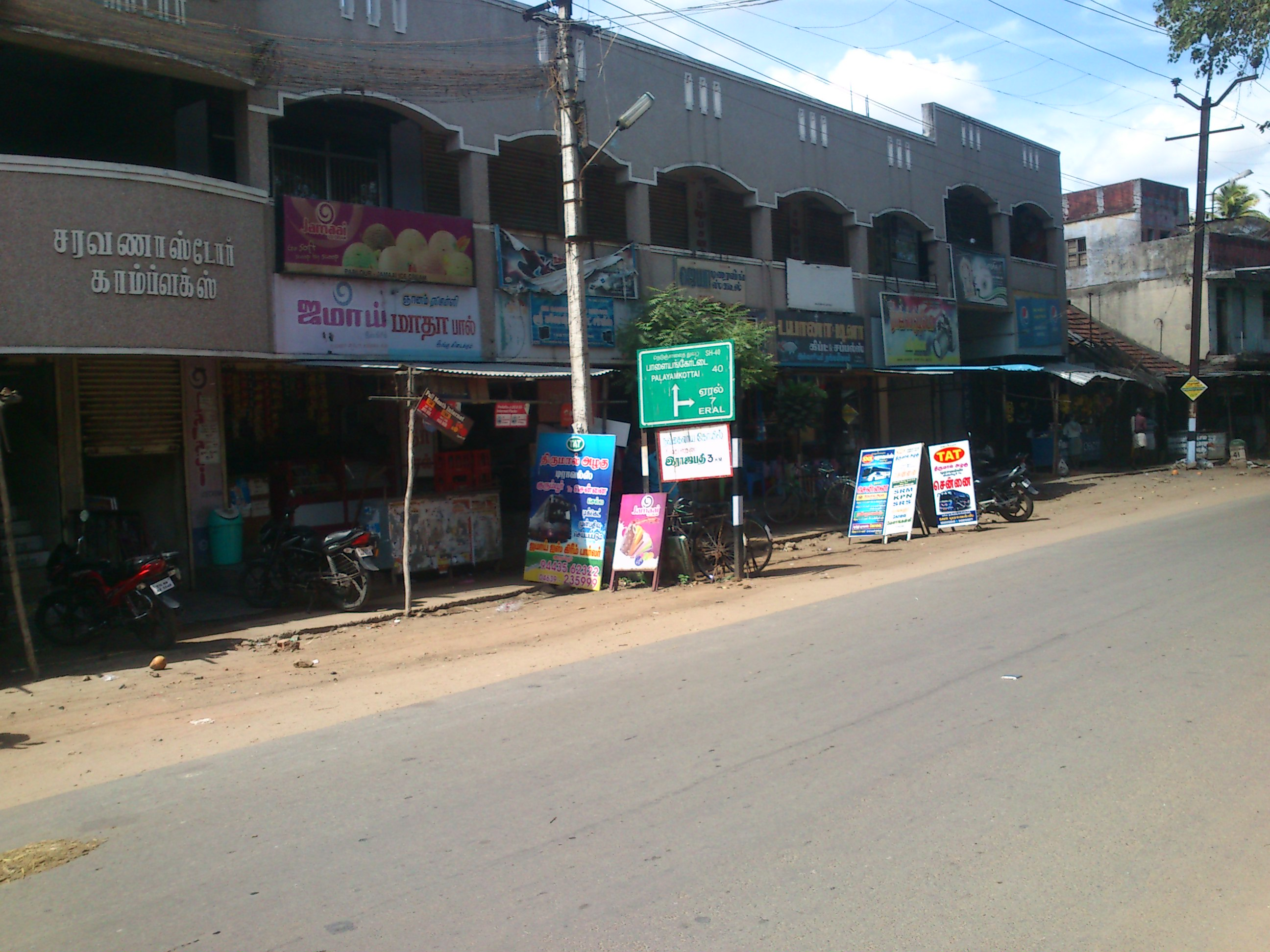 kuumbur main road